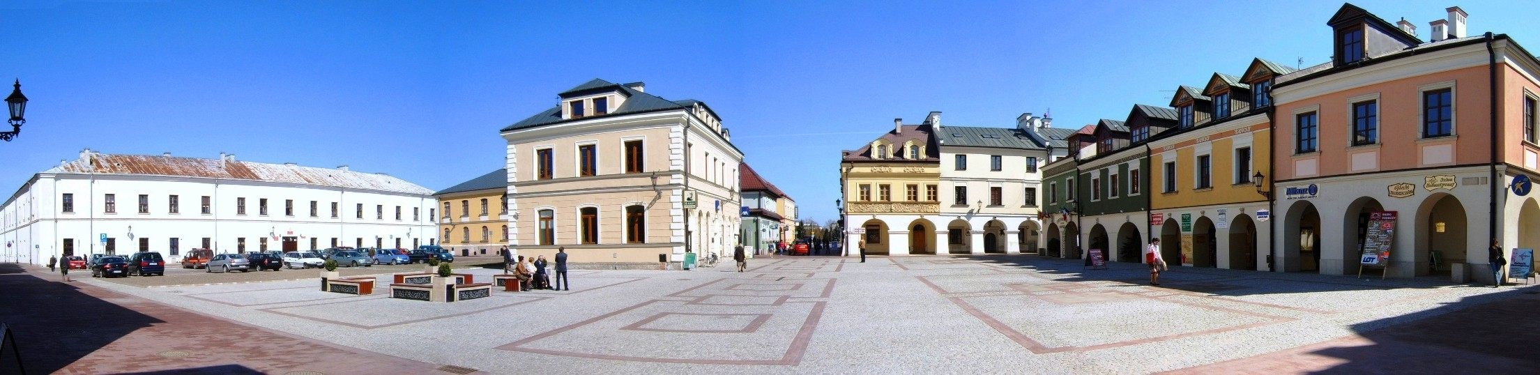 Salt Market in the Old Town in Zamość (after repair, 2010)